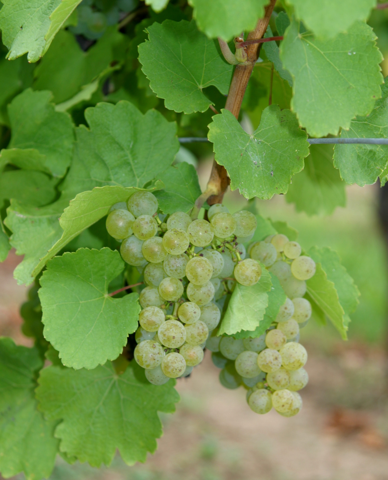 Leafs and grapes of the grape variety Oraniensteiner.